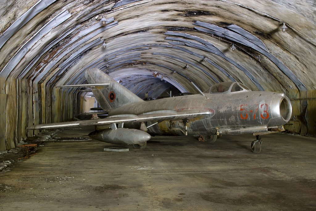 At Kucove this F2 (MiG-15bis) is rotting away in a tunnel.